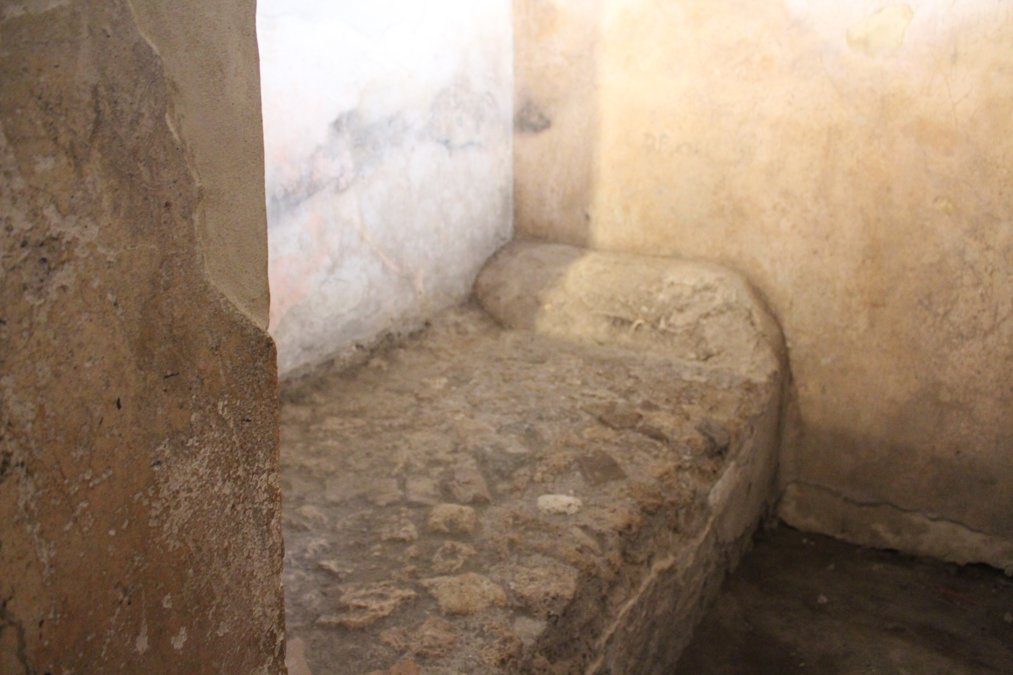 Lupanar, Pompeii, Italy